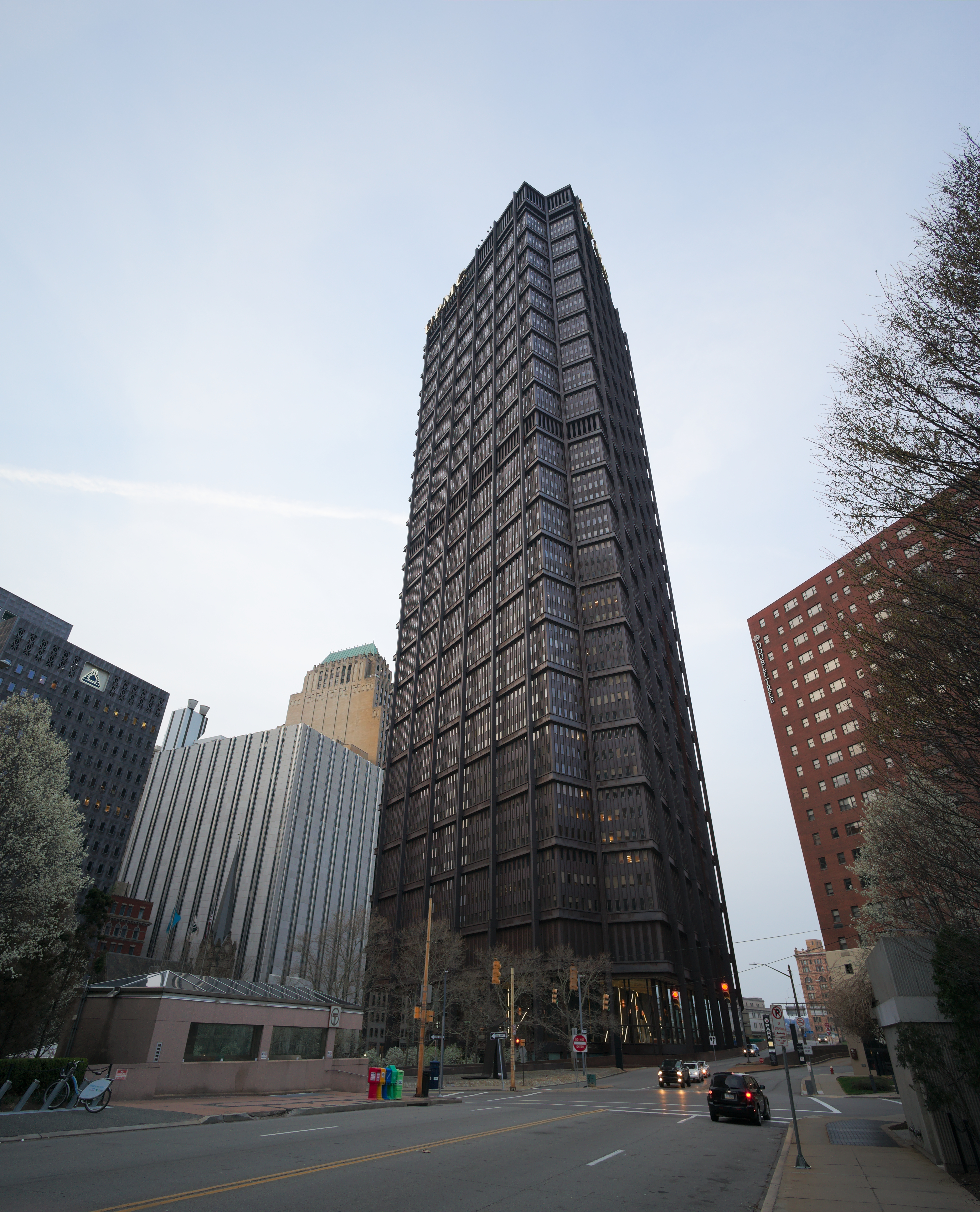 The U.S. Steel Tower is the tallest building in Pittsburgh.